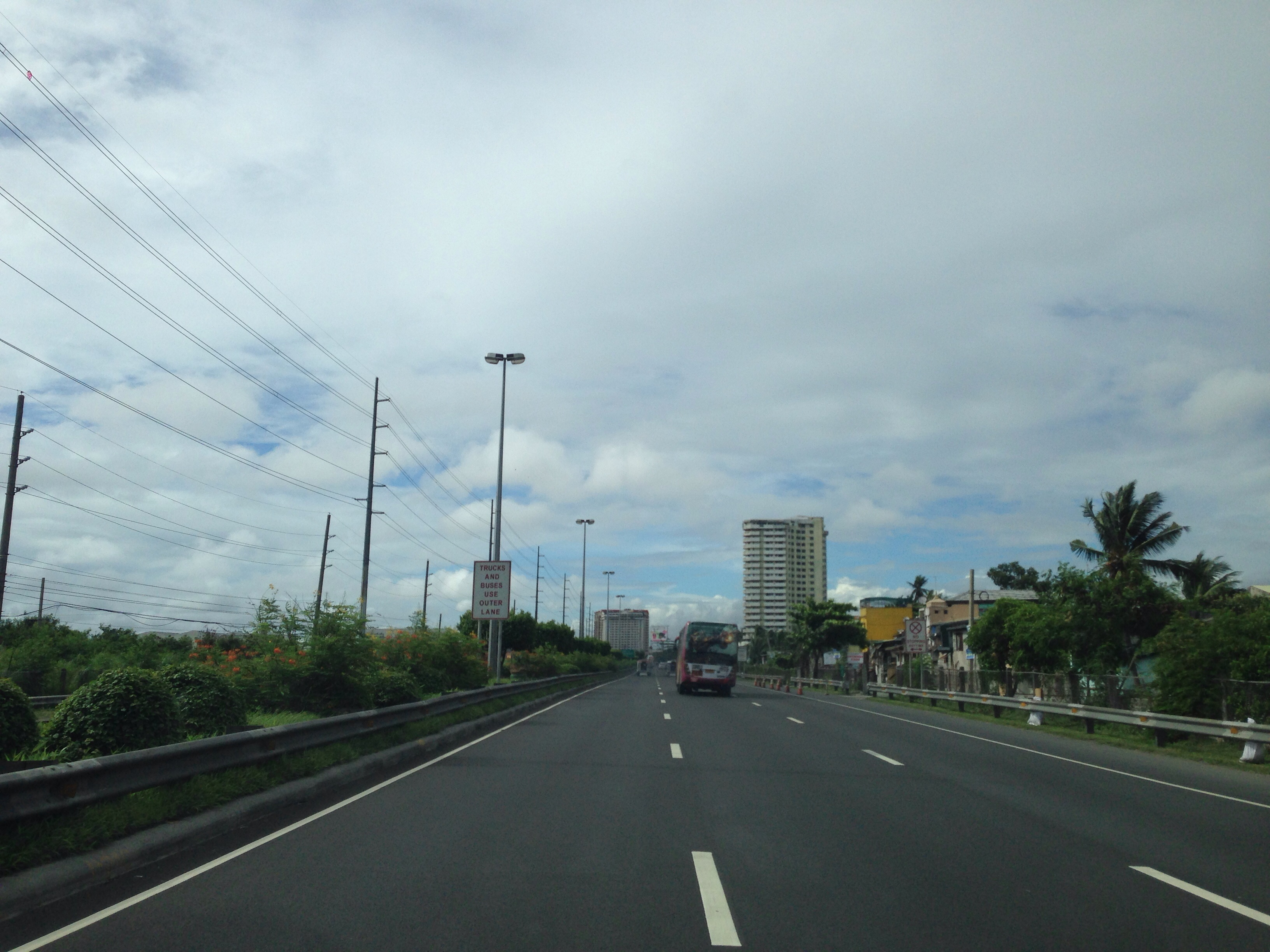 Manila–Cavite Expwy (Coastal Road) looking northbound towards Tambo in Parañaque, Metro Manila, Philippines